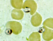 "Three Leishmania amastigotes, each with a clearly visible nucleus and kinetoplast"